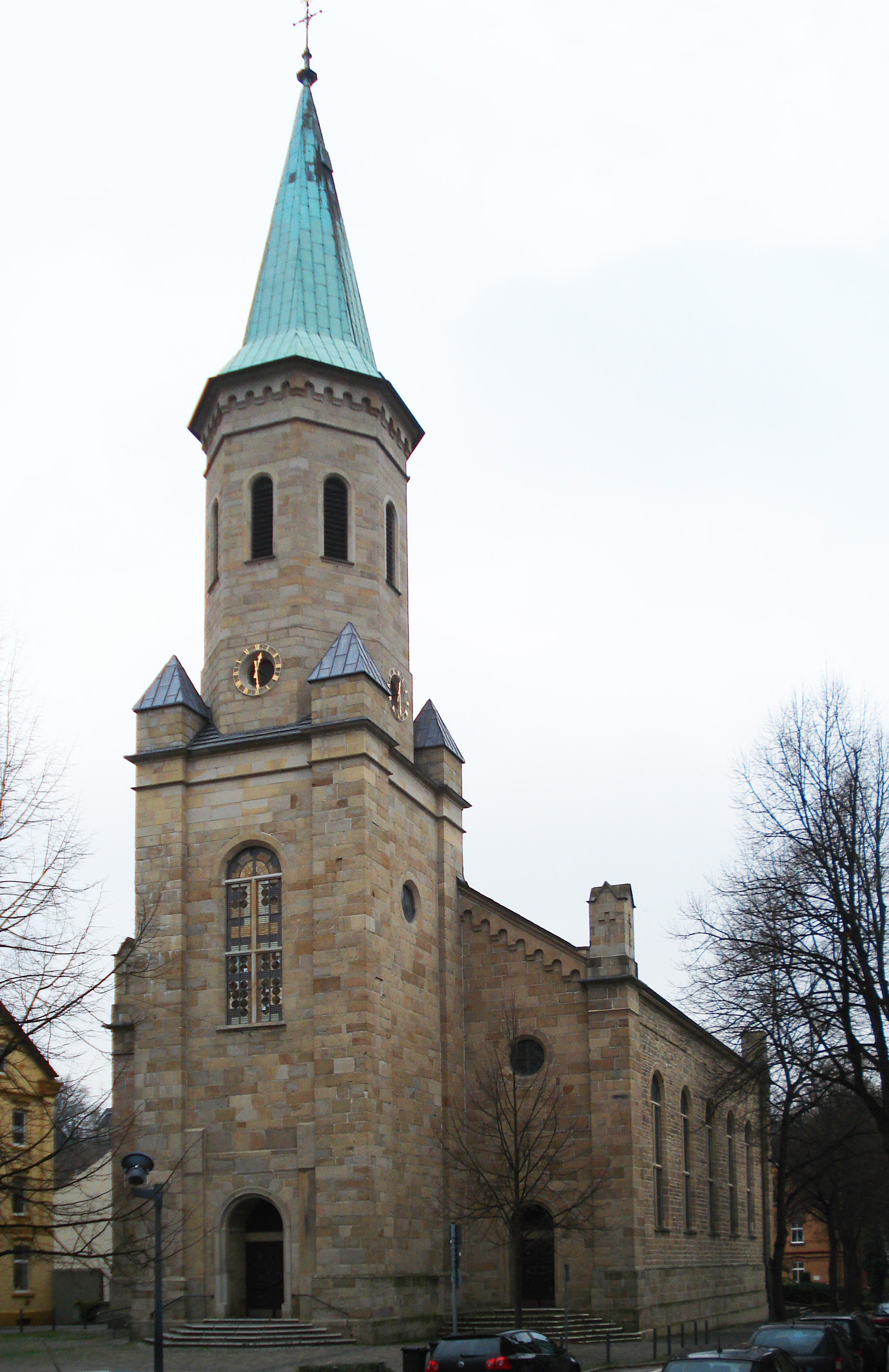 Protestand church Hagen-Haspe, Germany